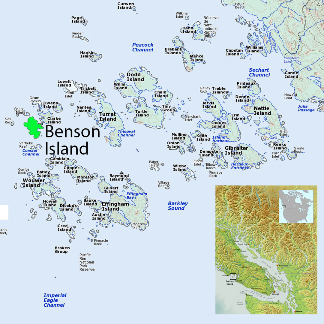 Map showing the location of Benson Island, British Columbia, Canada